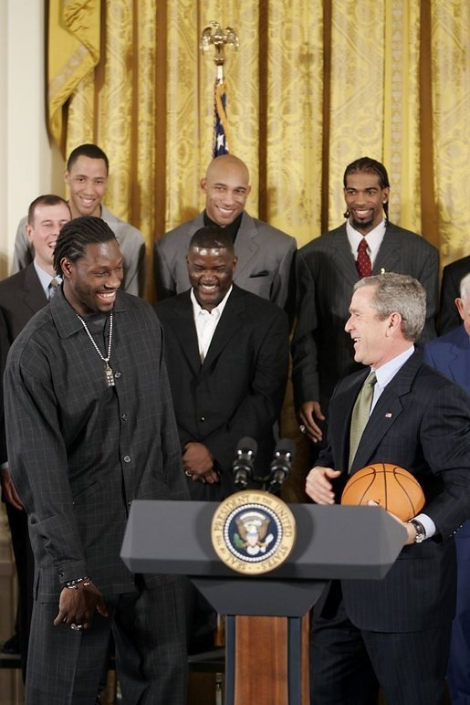 2004 Detroit Pistons congratulated by President George W. Bush. See in the picture, Ben Wallace to the left of Bush, General Manager Joe Dumars in first row center, Tayshaun Prince, Darvin Ham and Richard Hamilton (basketball) from left to right, back row.